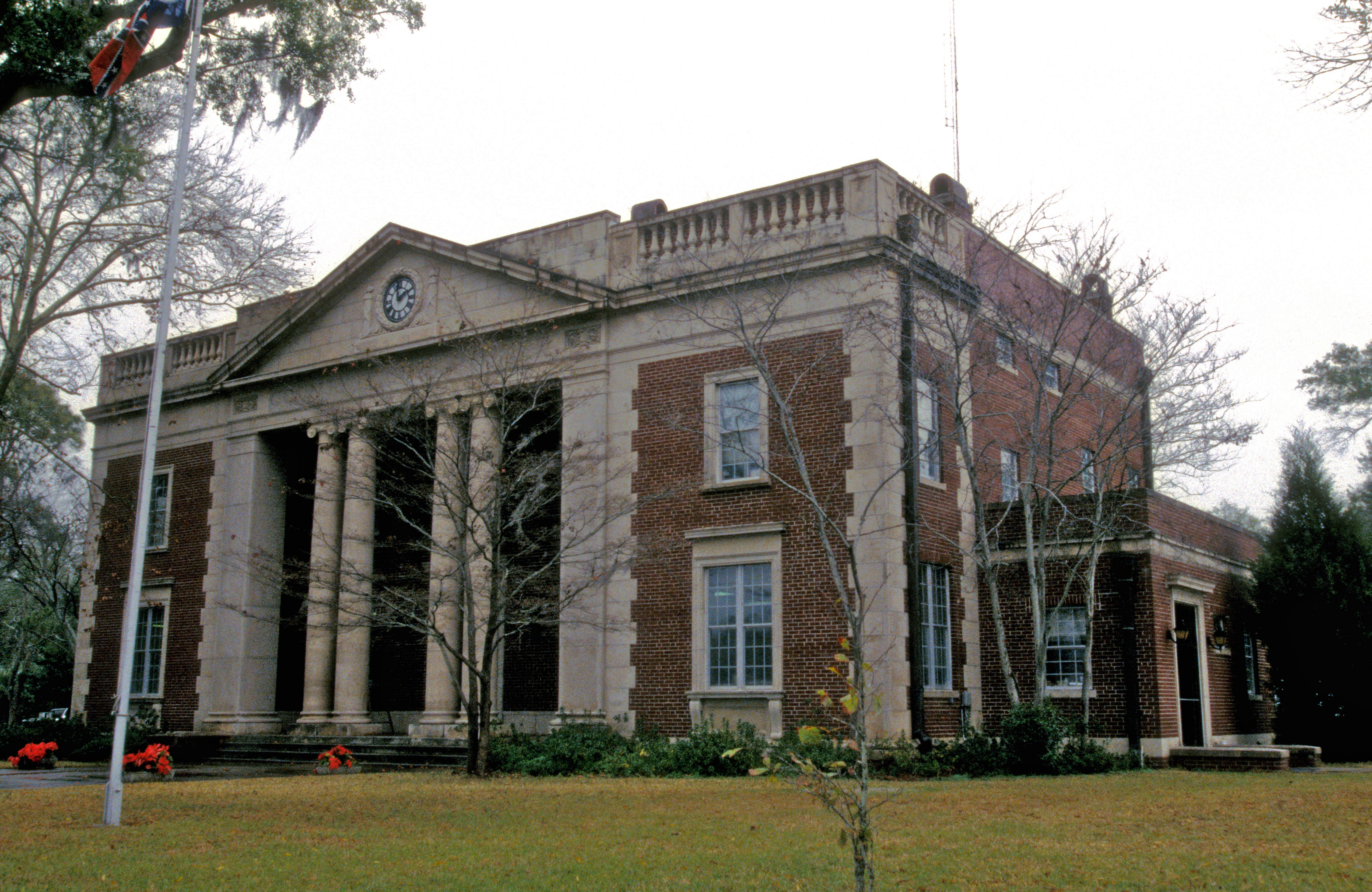 1928 NEO-CLASSICAL REVIVAL COUNTY COURTHOUSE